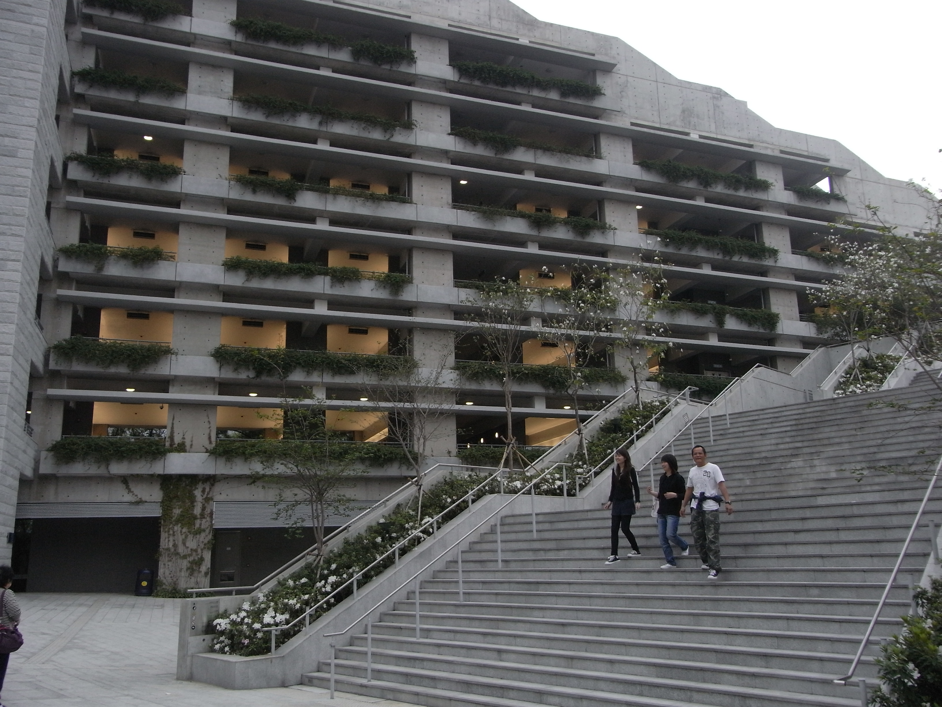 黃大仙區 鑽石山仰念堂 蒲崗村道